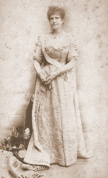 A Rainha D. Maria Pia